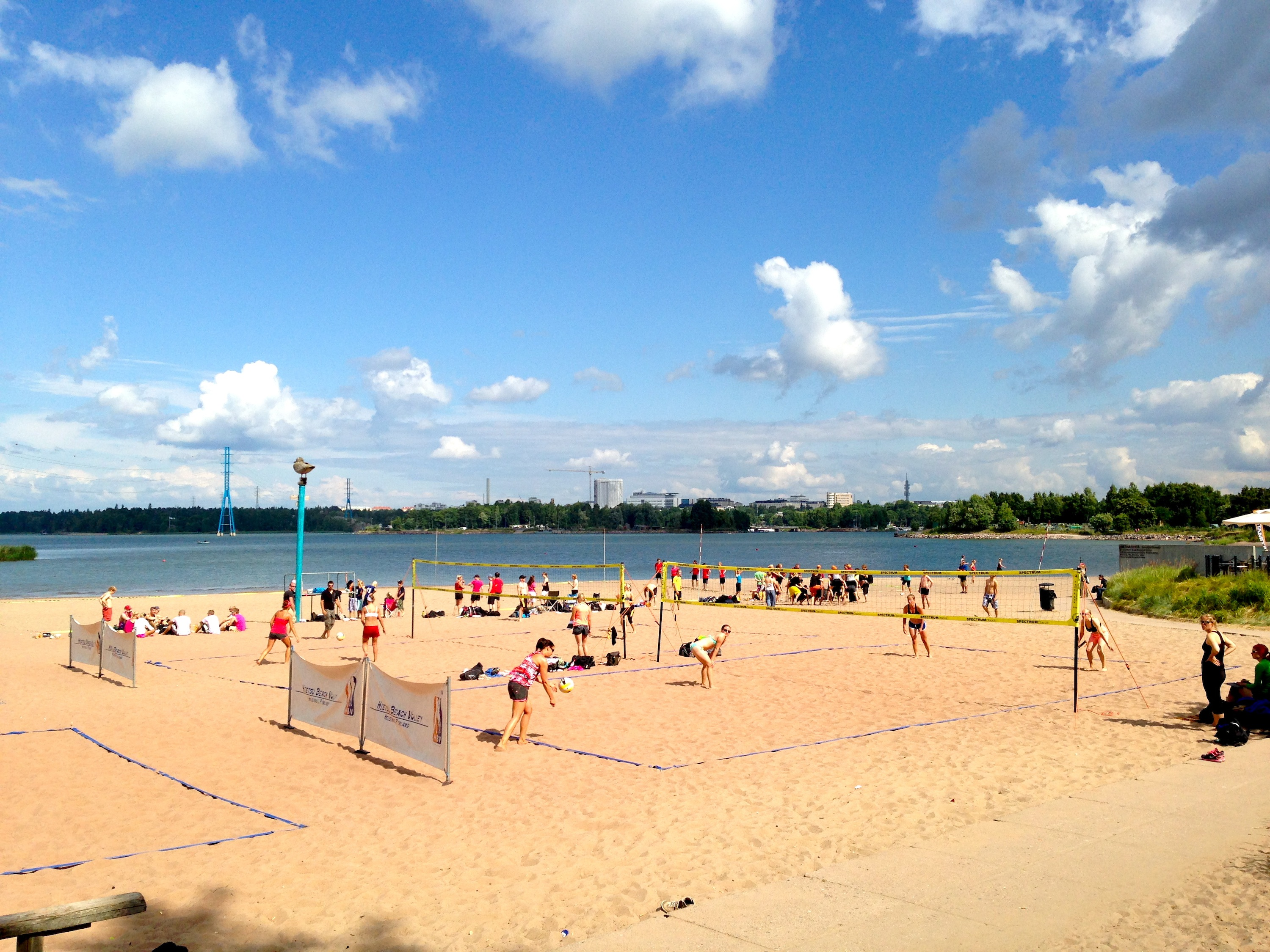 Beach volleyball at the Hietaniemi Beach near downtown Helsinki, Finland. In the background, a beach ultimate game is about to start.